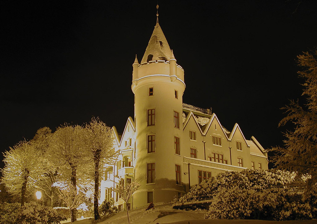 Gamlehaugen castel in Bergen, Norway.